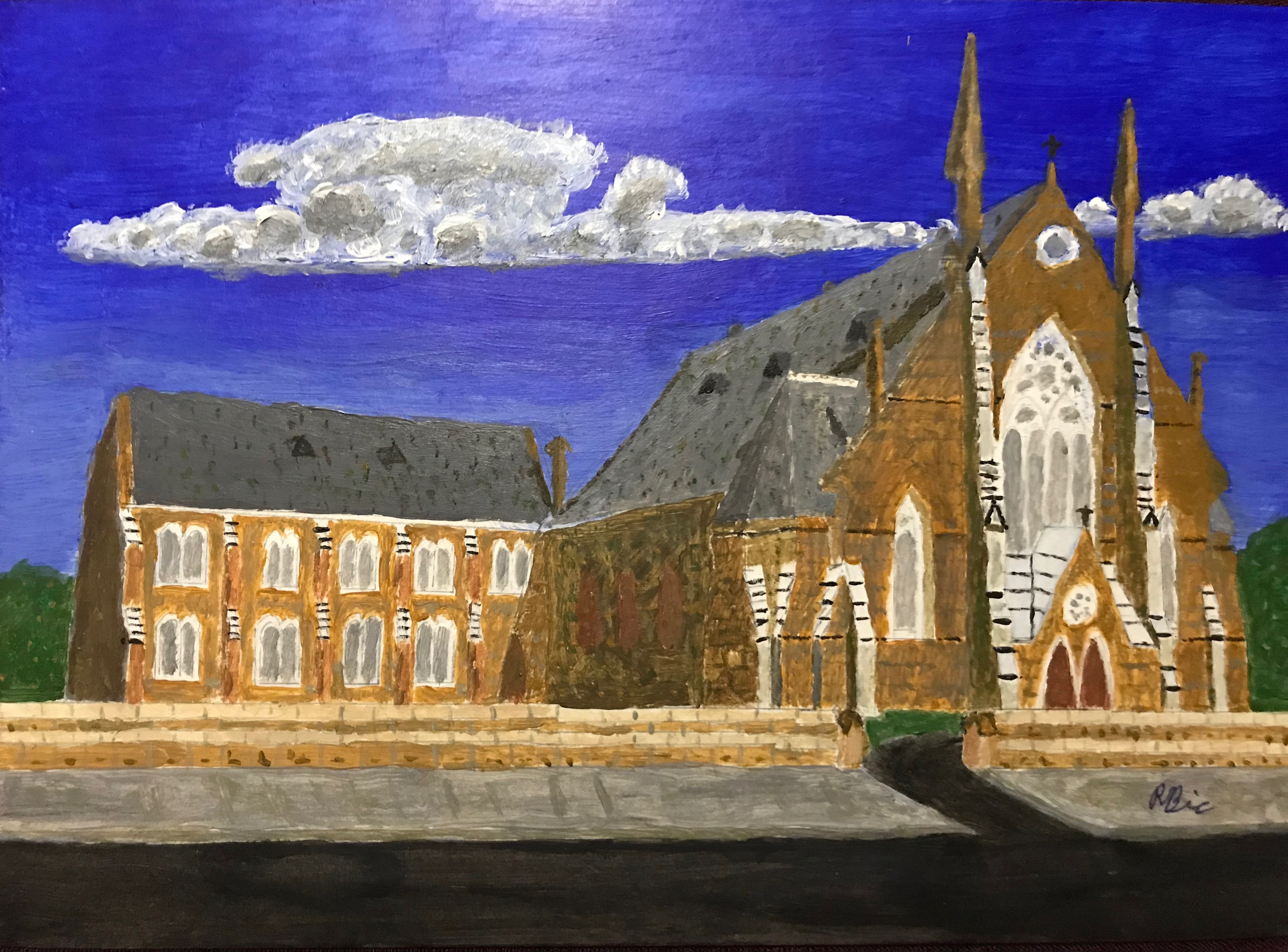 Norwood Congregational Church, on the corner of Norwood Grove and East Derby Street, Liverpool.